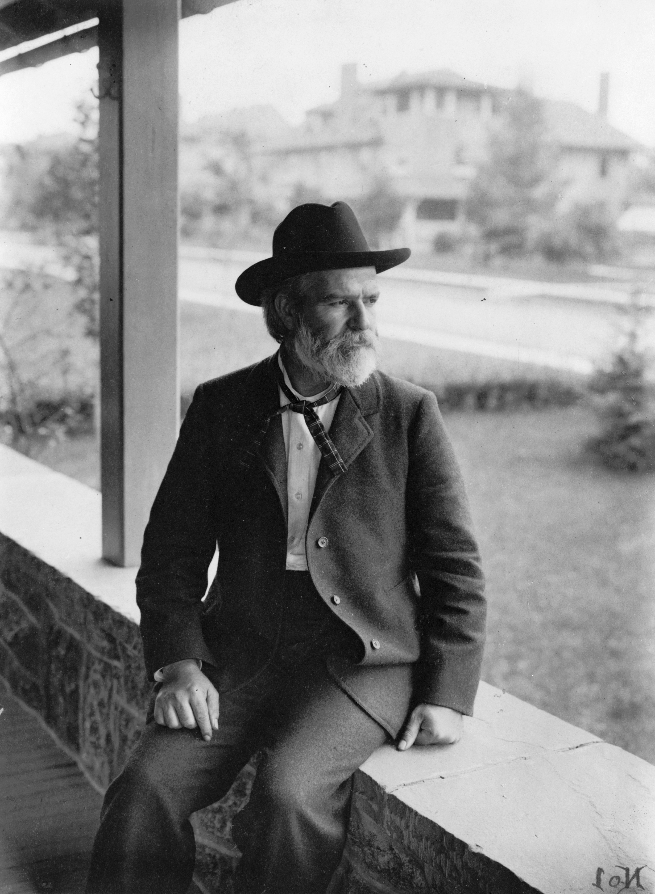 American poet Edwin Markham, photographed circa 1899 by Philadelphia photographer William H. Rau.